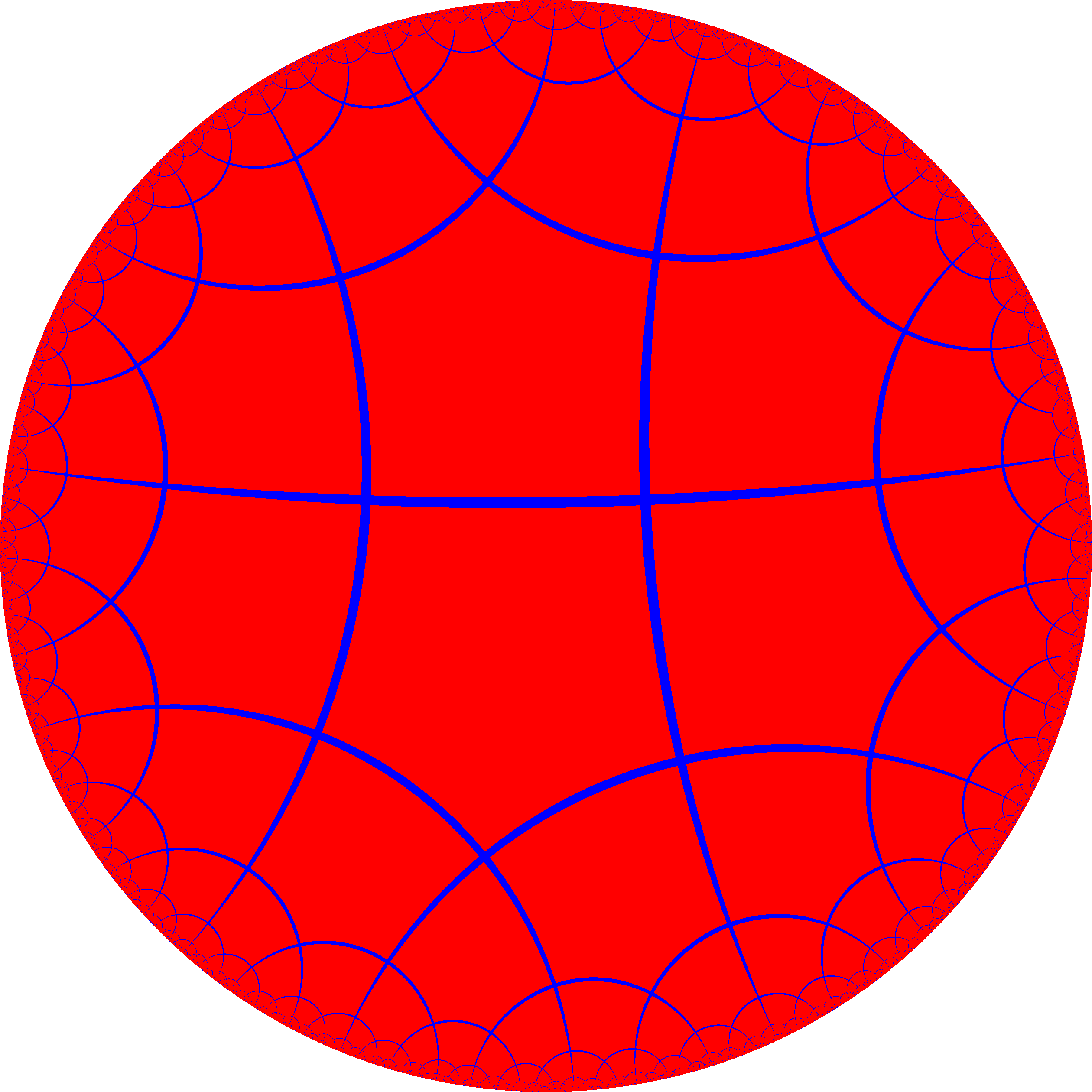 Uniform tiling of hyperbolic plane, o4o5x. Generated by Python code at User:Tamfang/programs. Equivalent: Dual